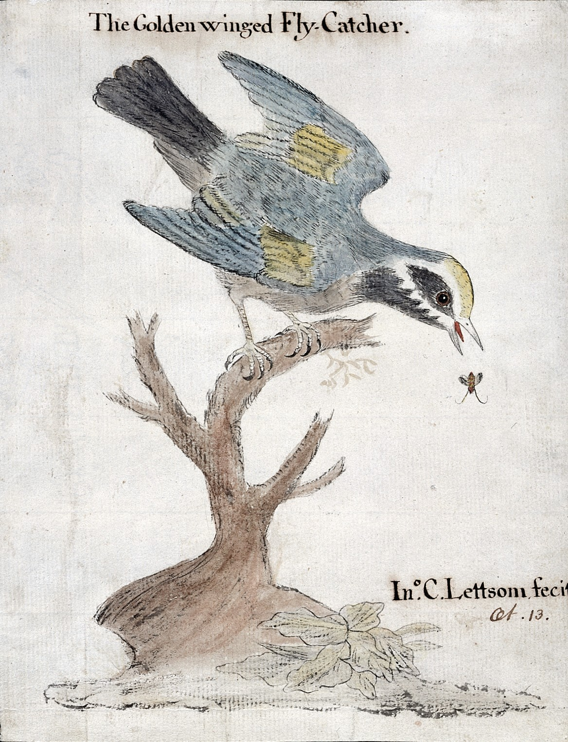 A golden-winged flycatcher (bird) catching an insect. Watercolour by J.C. Lettsom, 1757. Iconographic Collections Keywords: John Coakley Lettsom